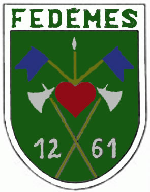 Coat of arms of Fedémes, Hungary